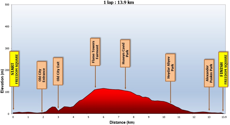 Cycling profile for Baku 2015, time trial